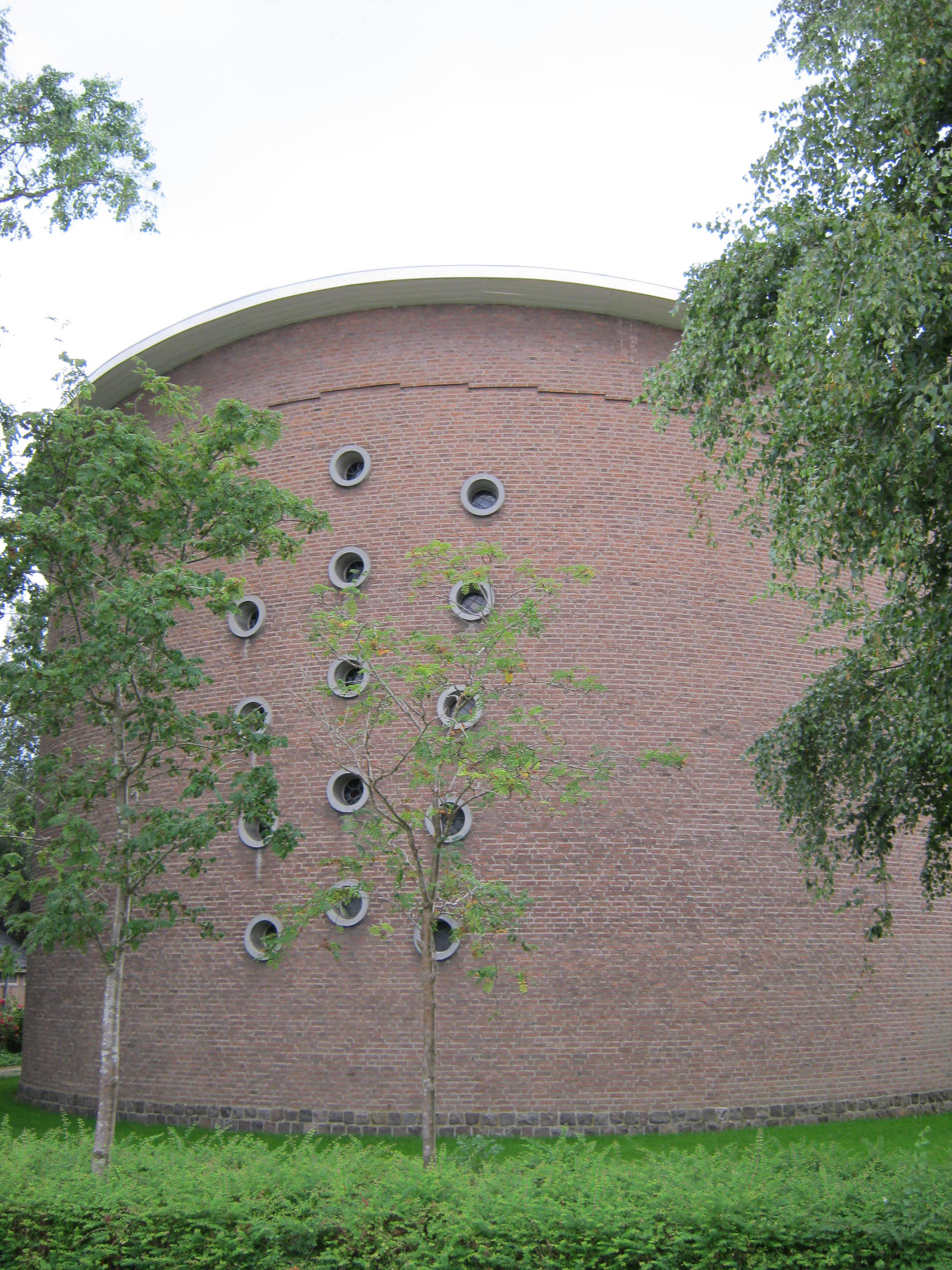 Parish Church of St. Nicolas in Haren (Groningen (the Netherlands)